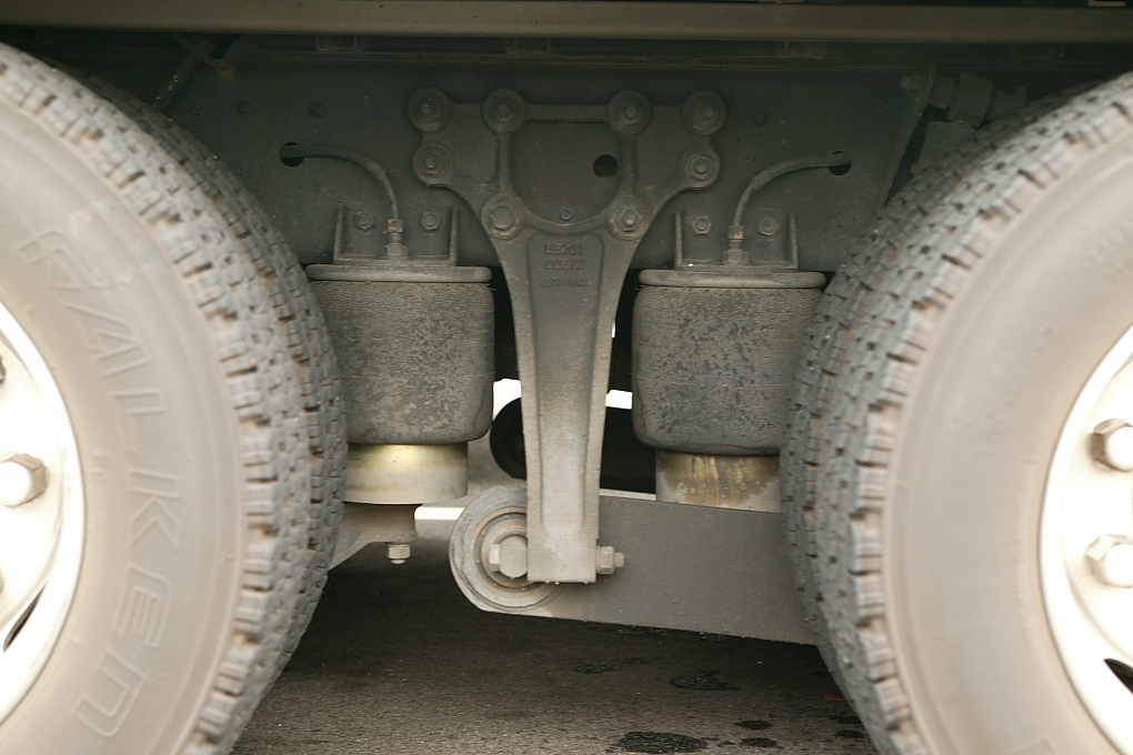 Trailing arm and airbags.